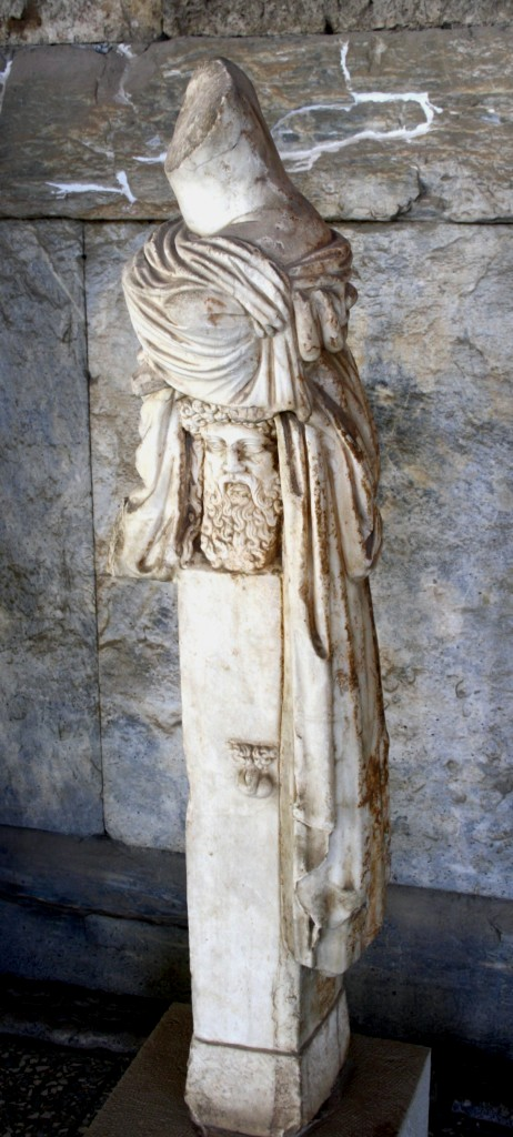 Herm. Serving as support for a statue of Hermes carrying the infant Dionysos. Roman copy, perhaps of a group by Kephisodotos. On display along the portico of the Stoa of Attalus, which houses the Ancient Agora Museum in Athens. Picture by Giovanni Dall'Orto, November 9 2009 (File clipped and compressed).